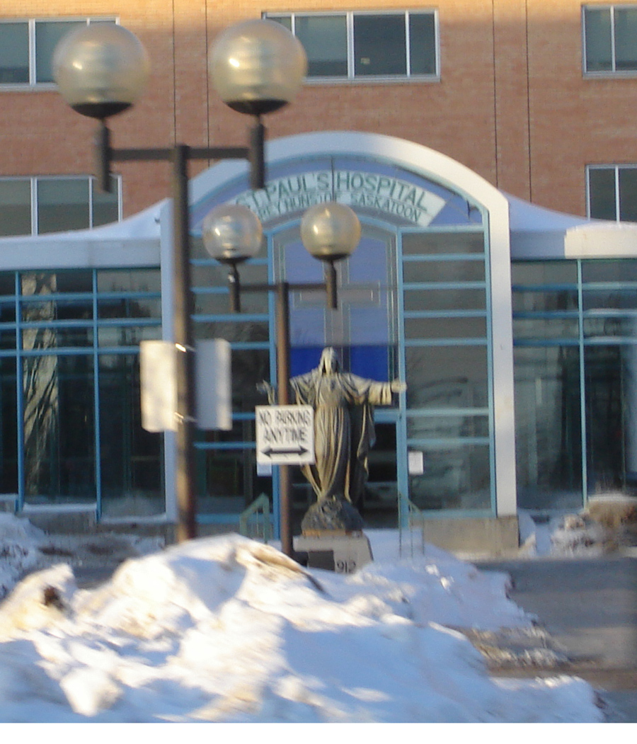 St. Paul's Hospital, Pleasant Hill, Core Neighbourhoods SDA, Saskatoon, Saskatchewan, Canada